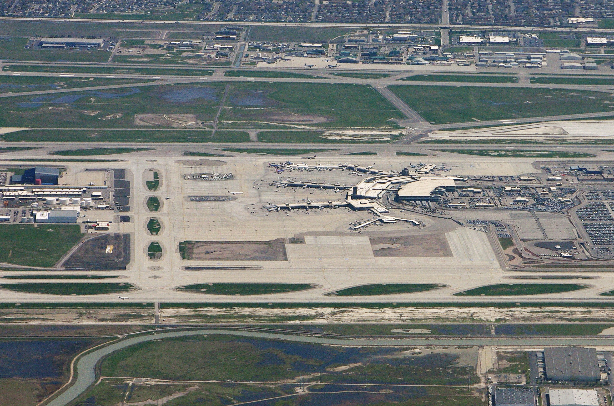 Salt Lake City International Airport SLC